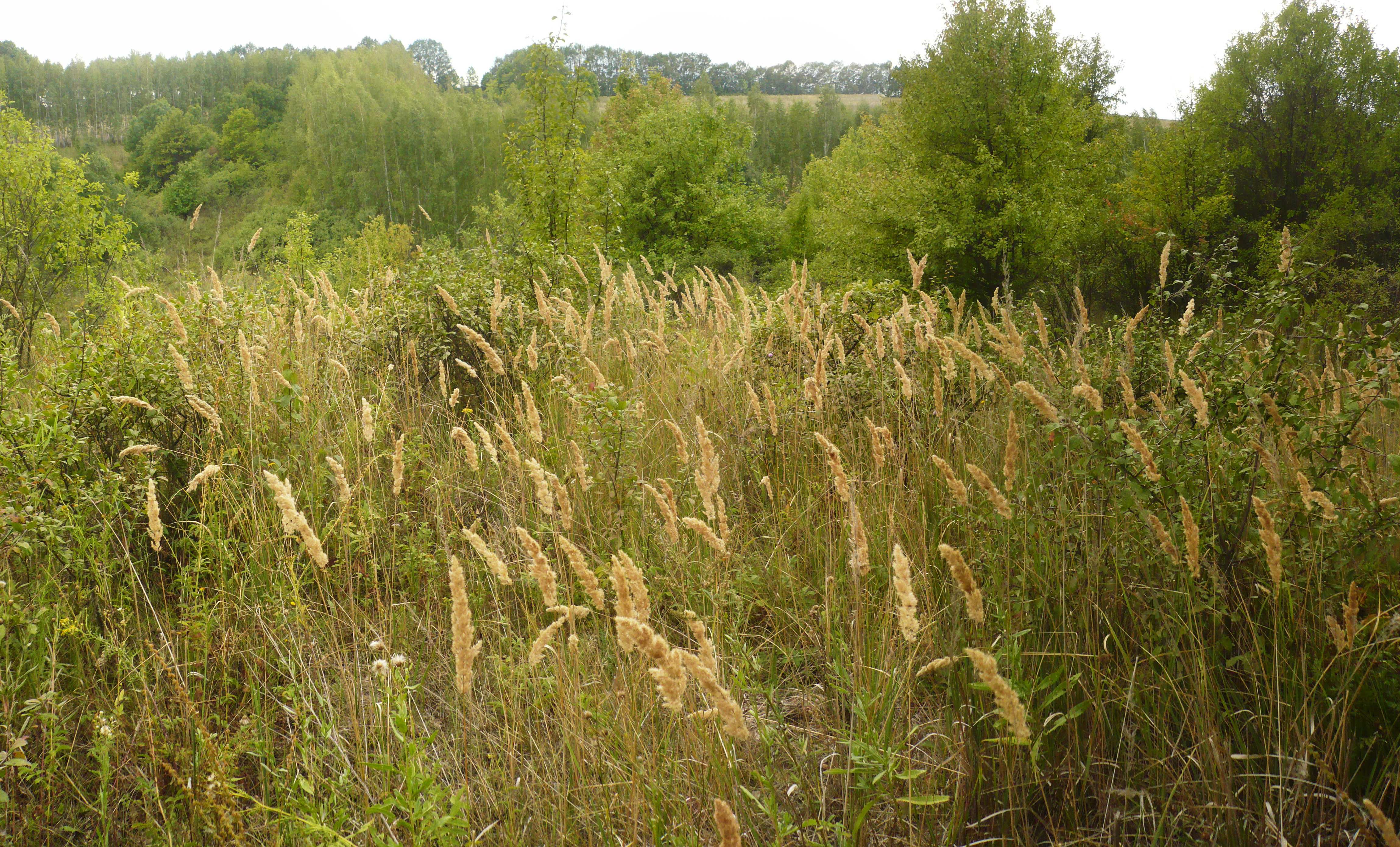 Calamagrostis epigejos in Belgorod Oblast (Russia).